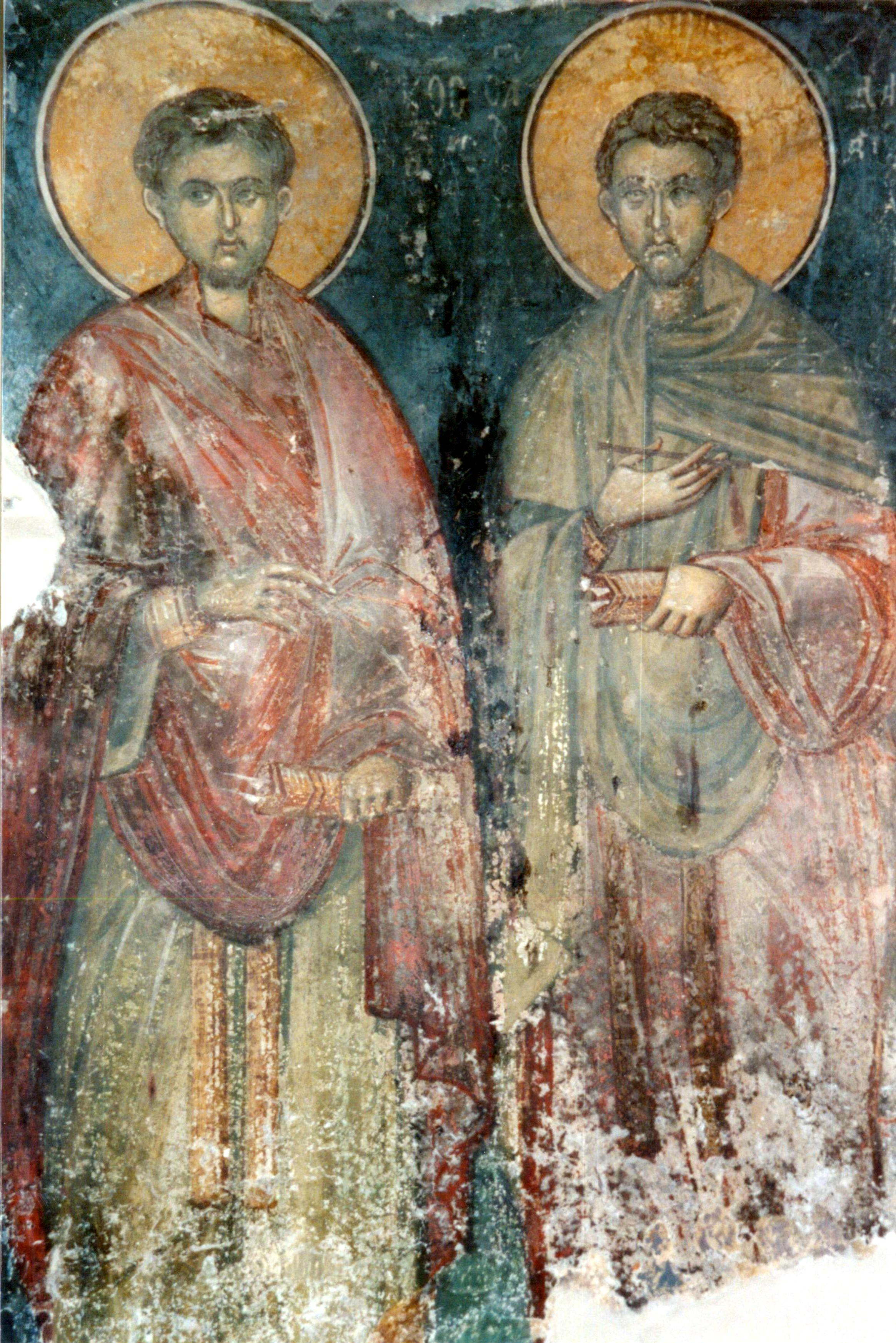 Saint Nicholas Bolnichki Church Fresco